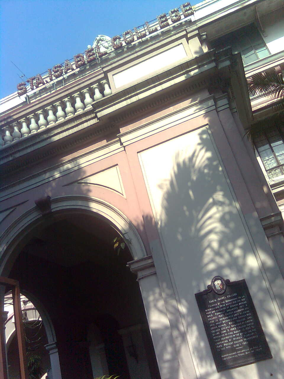 Santa Isabel College Main Facade